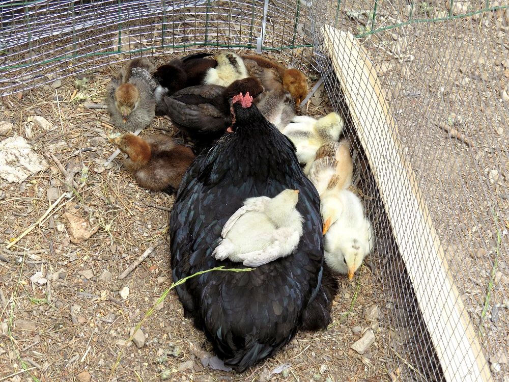 Mother Hen and Chicks in hebron